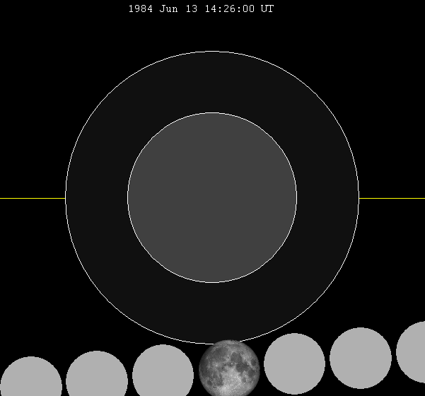 June 1984 lunar eclipse chart of moon's path through the earth's shadow. thumb